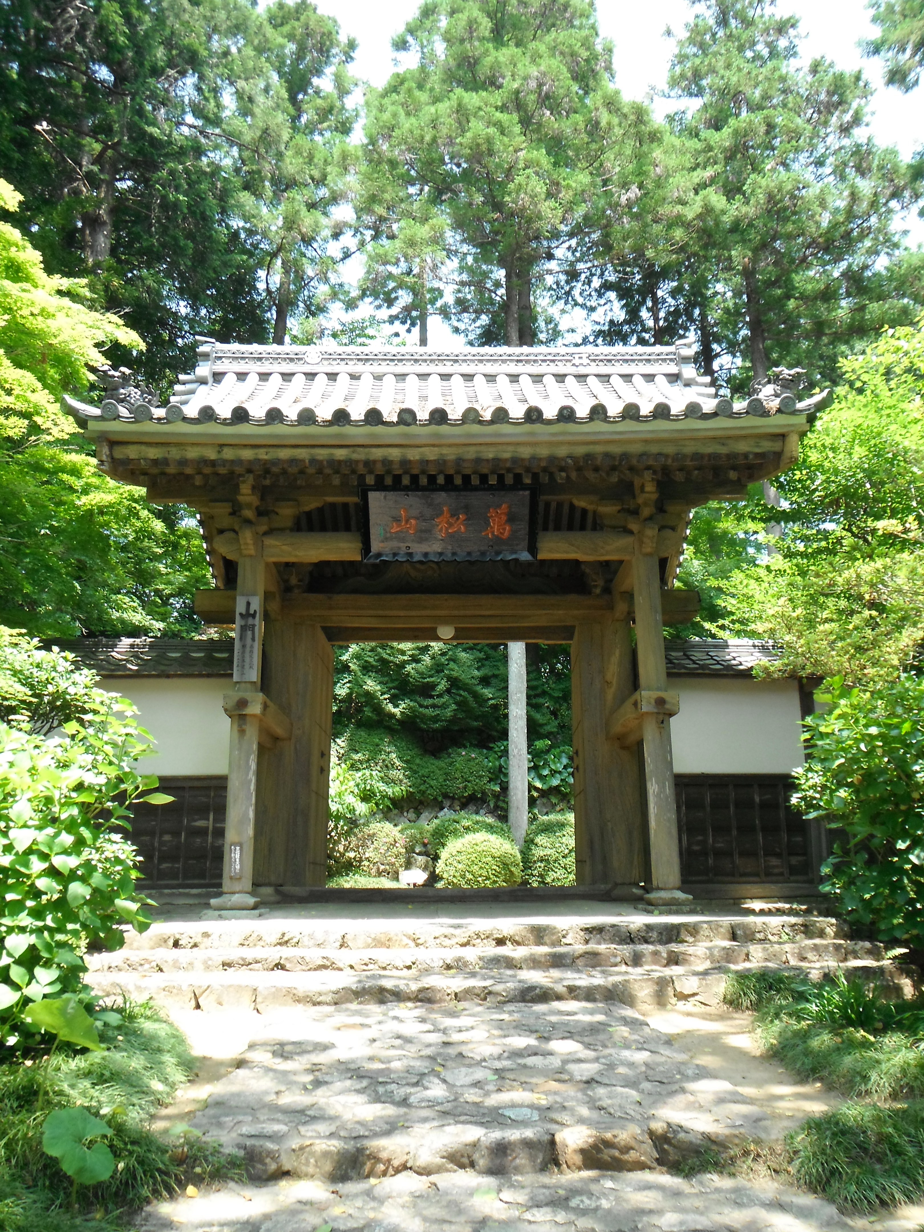 temple gate of Ryotan temple